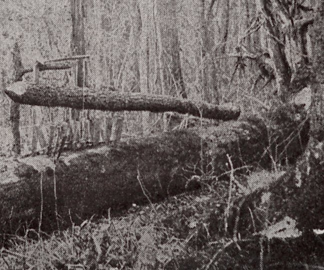 A Chinese sable trap in Ussurian forest, Russia